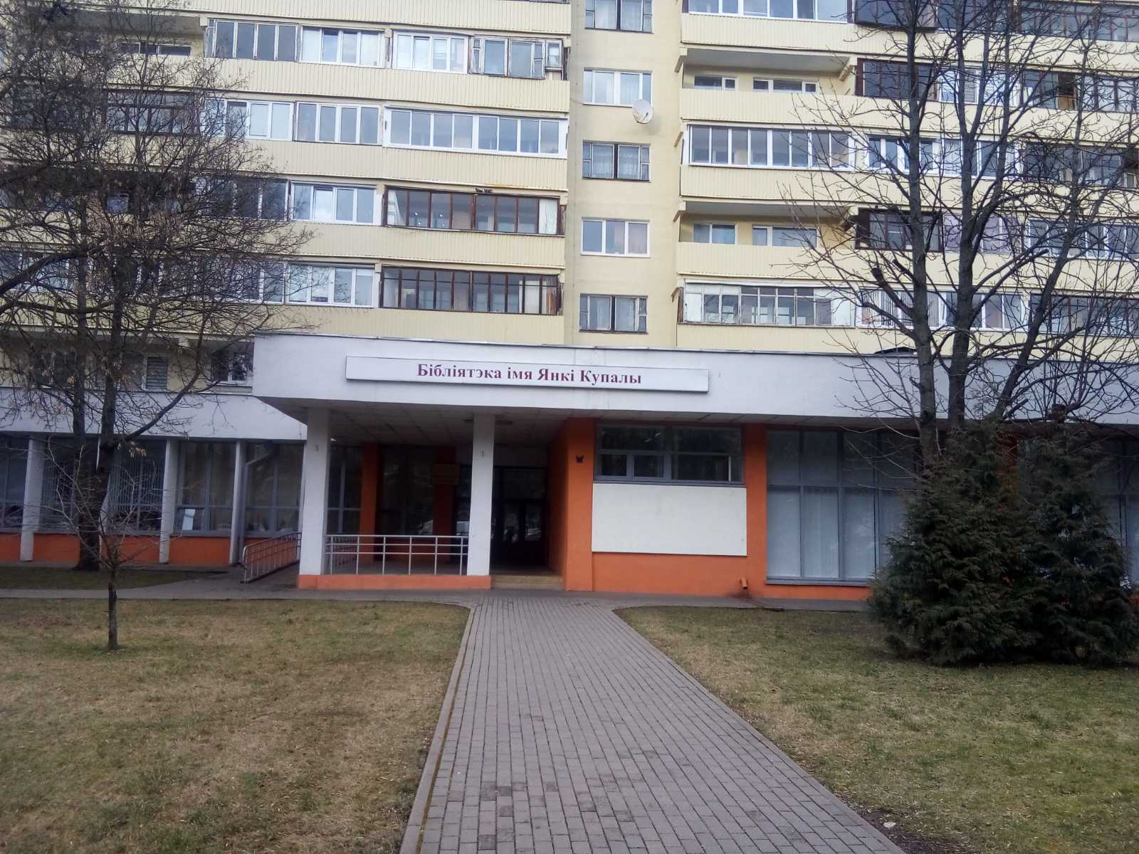 Yanka Kupala Central Library (16 Very Kharuzhay Street, Saviecki District, Minsk, Belarus; 27th of Februray, 2020).